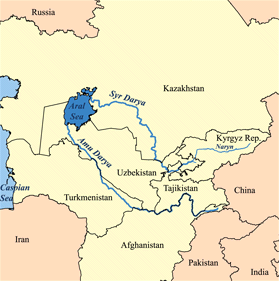 This is a map of area around the Aral Sea including the Amu Darya and Syr Darya rivers. The Aral Sea boundaries are circa 1960 but the political boundaries are the present-day ones. Countries that are at least partially in the Aral Sea watershed are in yellow.